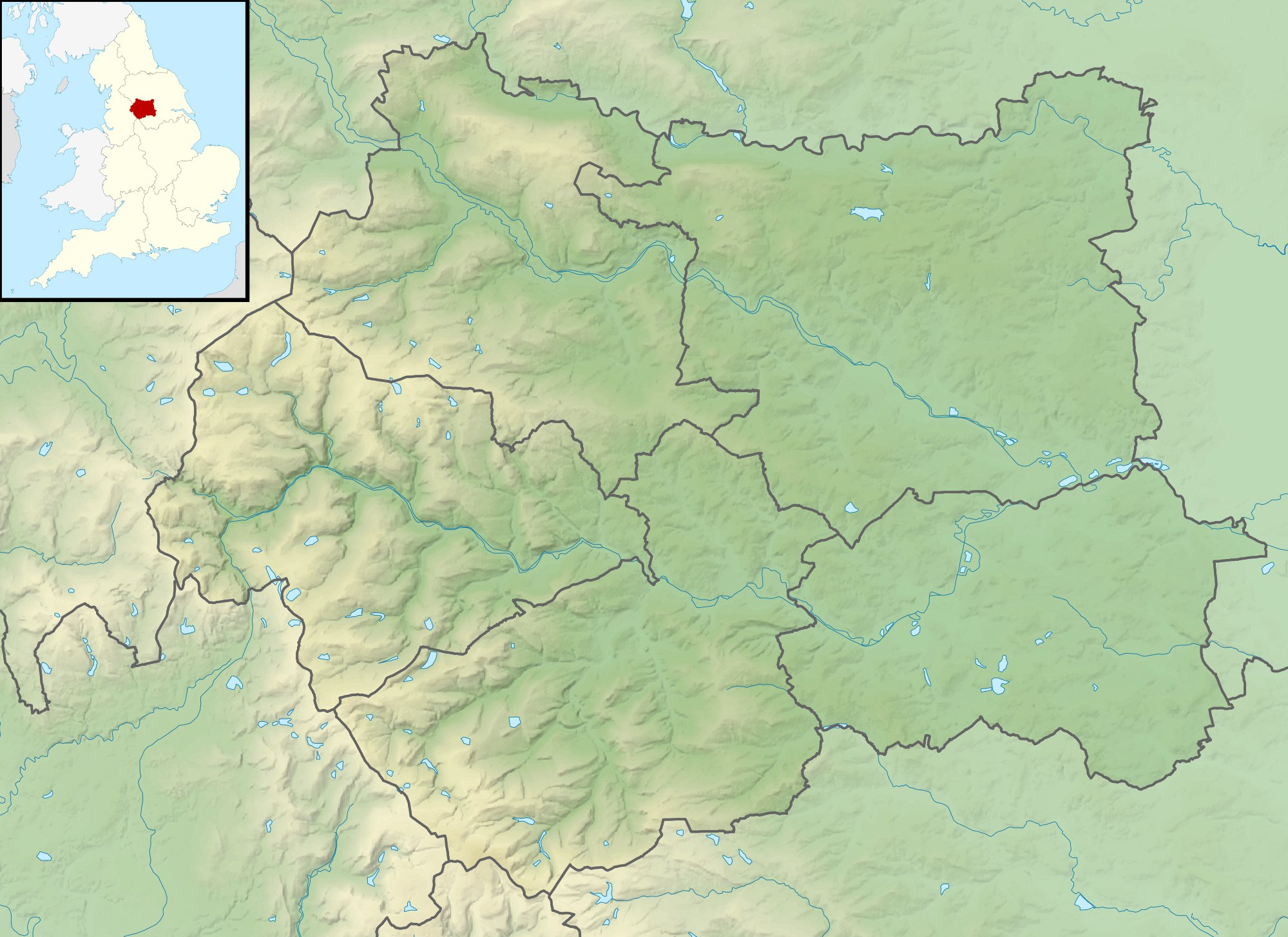 Relief map of West Yorkshire, UK. Equirectangular map projection on WGS 84 datum, with N/S stretched 170% Geographic limits: West: 2.30W East: 1.18W North: 53.98N South: 53.50N